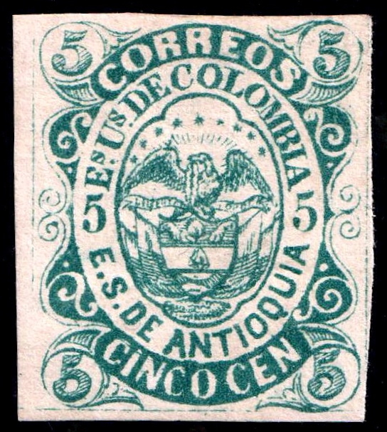 Colombian State of Antioquia 5c green, mint. Catalogue: Sc. 7